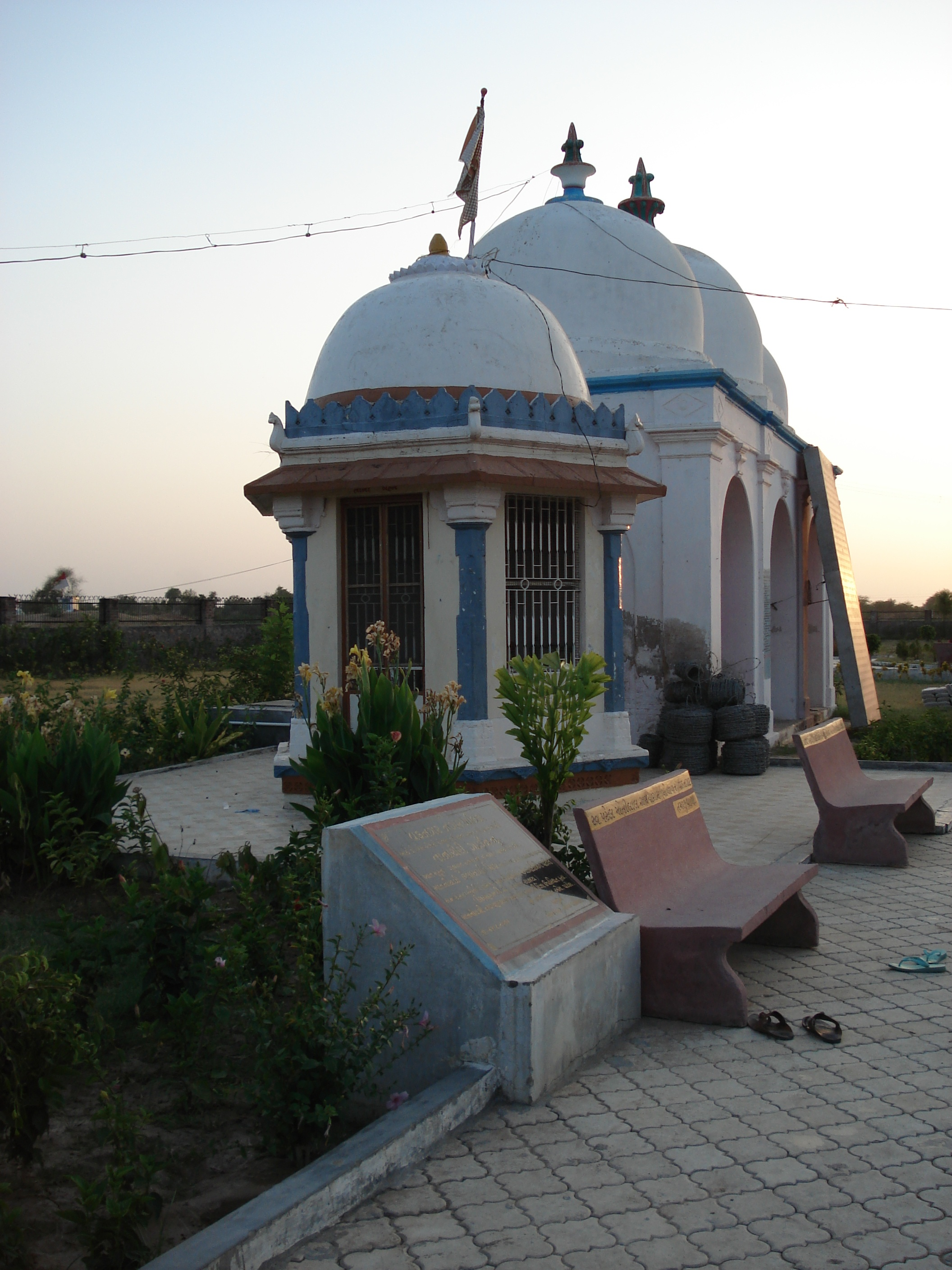 Tana Riri's Garden and Deri - Vadnagar